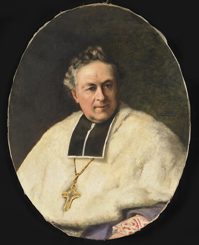 Portrait of French archbishop Arthur-Xavier Ducellier (1832-1893), bishop of Bayonne (1878-1887) then archbishop of Besançon (1887-1893).